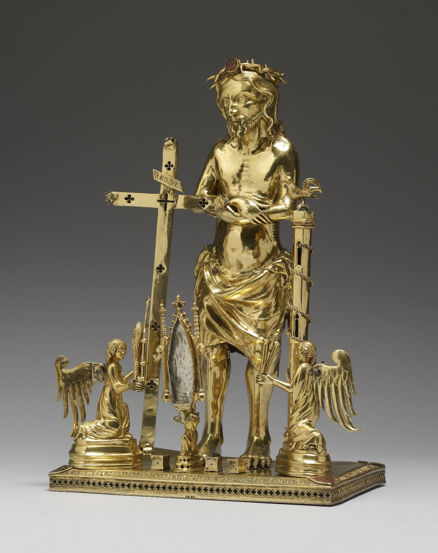 The image of the Man of Sorrows is a distillation of the events of Christ's Passion. Christ contemplates with sorrow the instruments of his suffering: the cross and hammer, whips, nails, column of the Flagellation, and the dice thrown by the soldiers for his garments. The gabled container held by an angel once housed a thorn believed to be from Christ's Crown of Thorns, while the hinged cross and column probably held pieces of wood believed to be from Christ's cross and from the column against which he was whipped. According to an inscription on the base, the reliquary was ordered by the bishop of Olomouc in Moravia to house the Holy Thorn. It was surely a present for Holy Roman Emperor Charles IV. Both men's coats of arms (those of Moravia and Bohemia) are on the base, and the thorn was already in the emperor's famous collection of relics, as a gift from the king of France. As Charles reigned over both Bohemia and Moravia only from 1347 to 1349, the piece dates to this time. The sophisticated workmanship is characteristic of objects created for the imperial court in Prague.